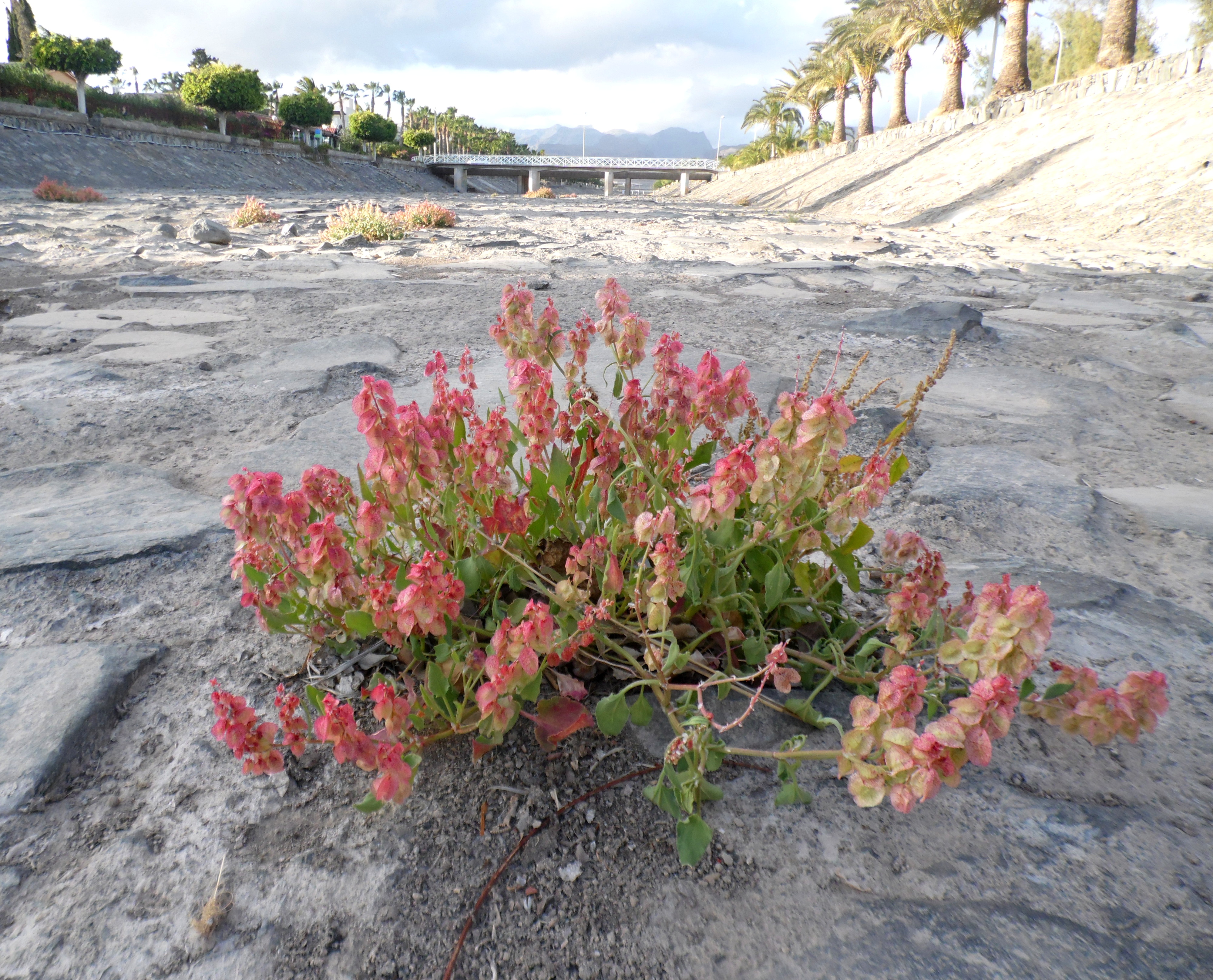 Rumex vesicarius in Barranco de Maspalomas